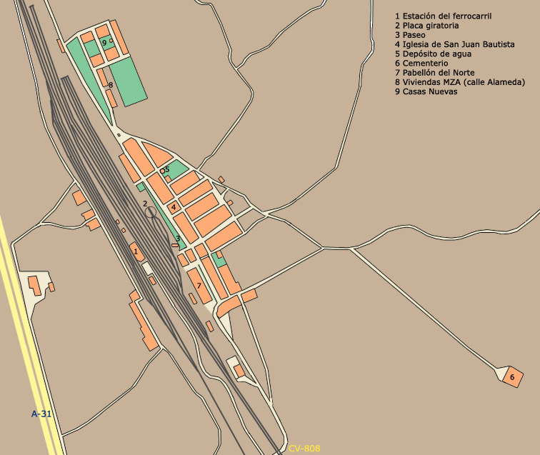 La Encina plane